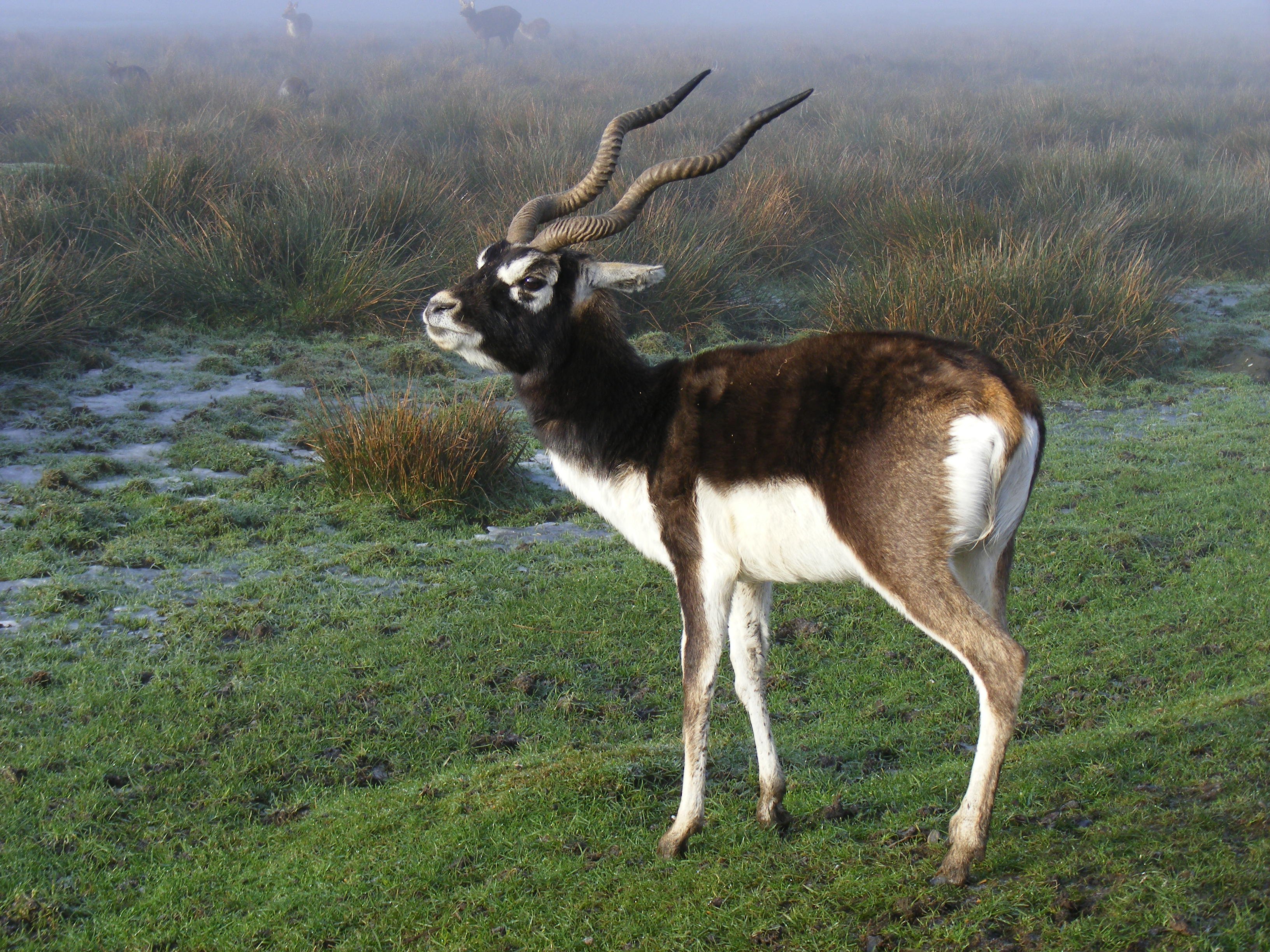 Blackbuck - Antilope cervicapra